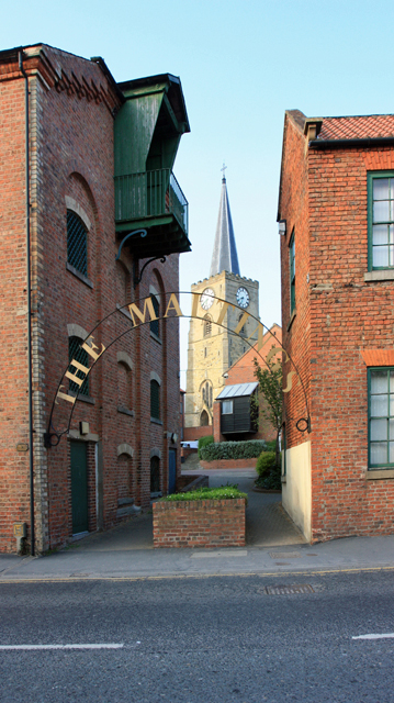 St Leonards through the Maltings Framing the church underneath the arch would have required standing in the road for a dangerous length of time.